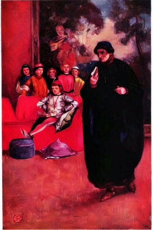 Vittorino's first meeting with the heir of the Gonzagas, drawn taken by Vittorino da Feltre: a prince of Teachers, edit by a Sister of Notre Dame, MacDonald and Evans, London 1908, p. 81